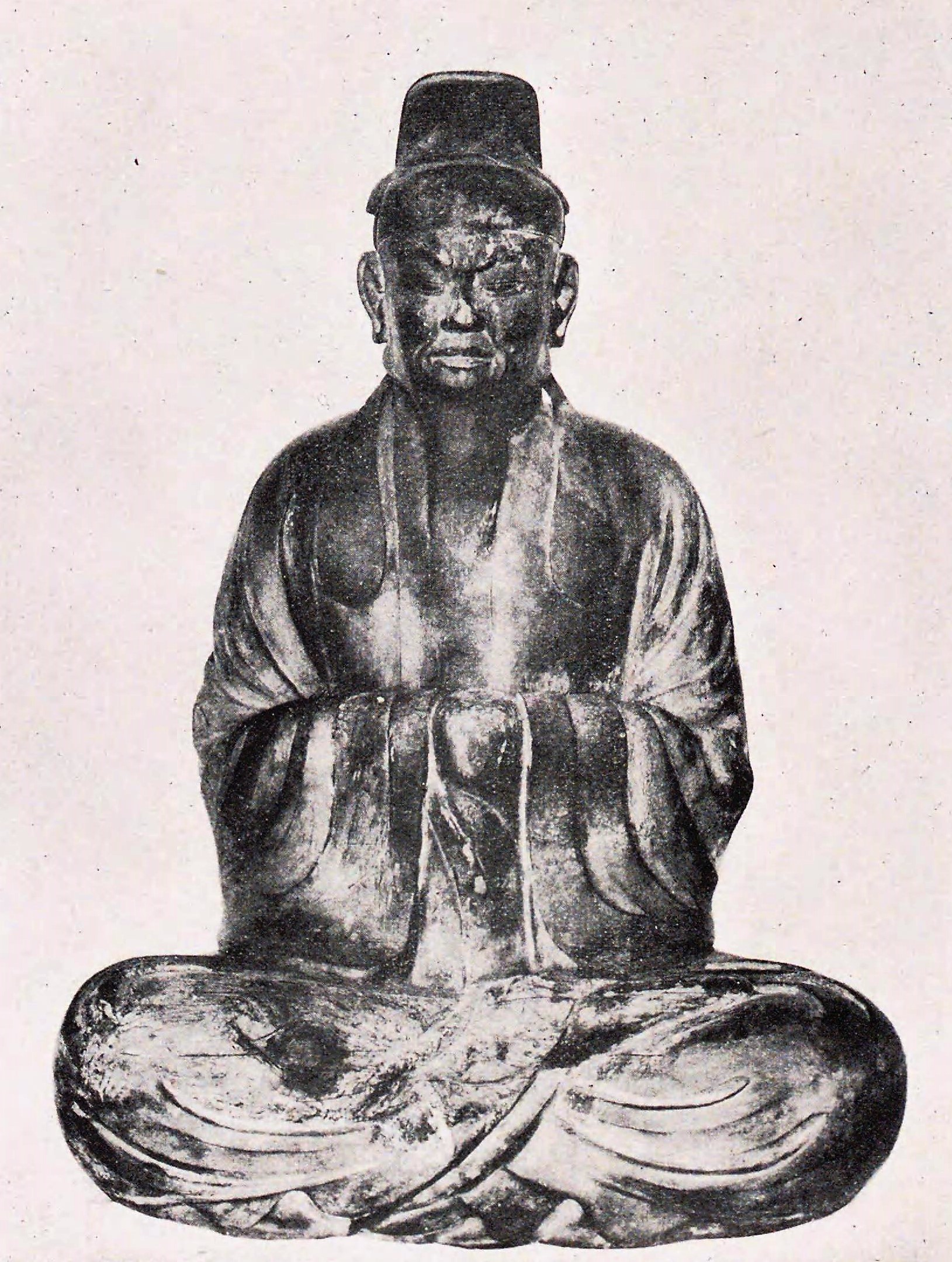 A statue of the male deity made in Heian period at Matsunoo-taisha, Kyoto, Kyoto prefecture. An Important Cultural Property of Japan.